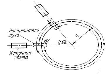 Referat